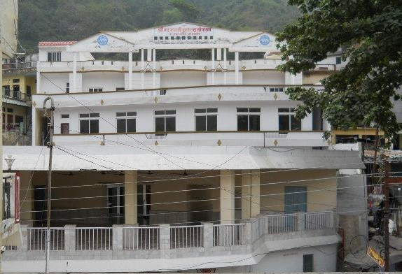 Lakshman Jhula Ajapa Yoga Ashram